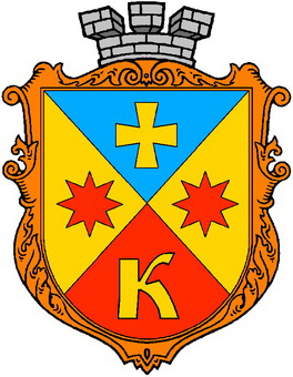 Coat of arms of Kobelyaky Poltava Oblast Ukraine